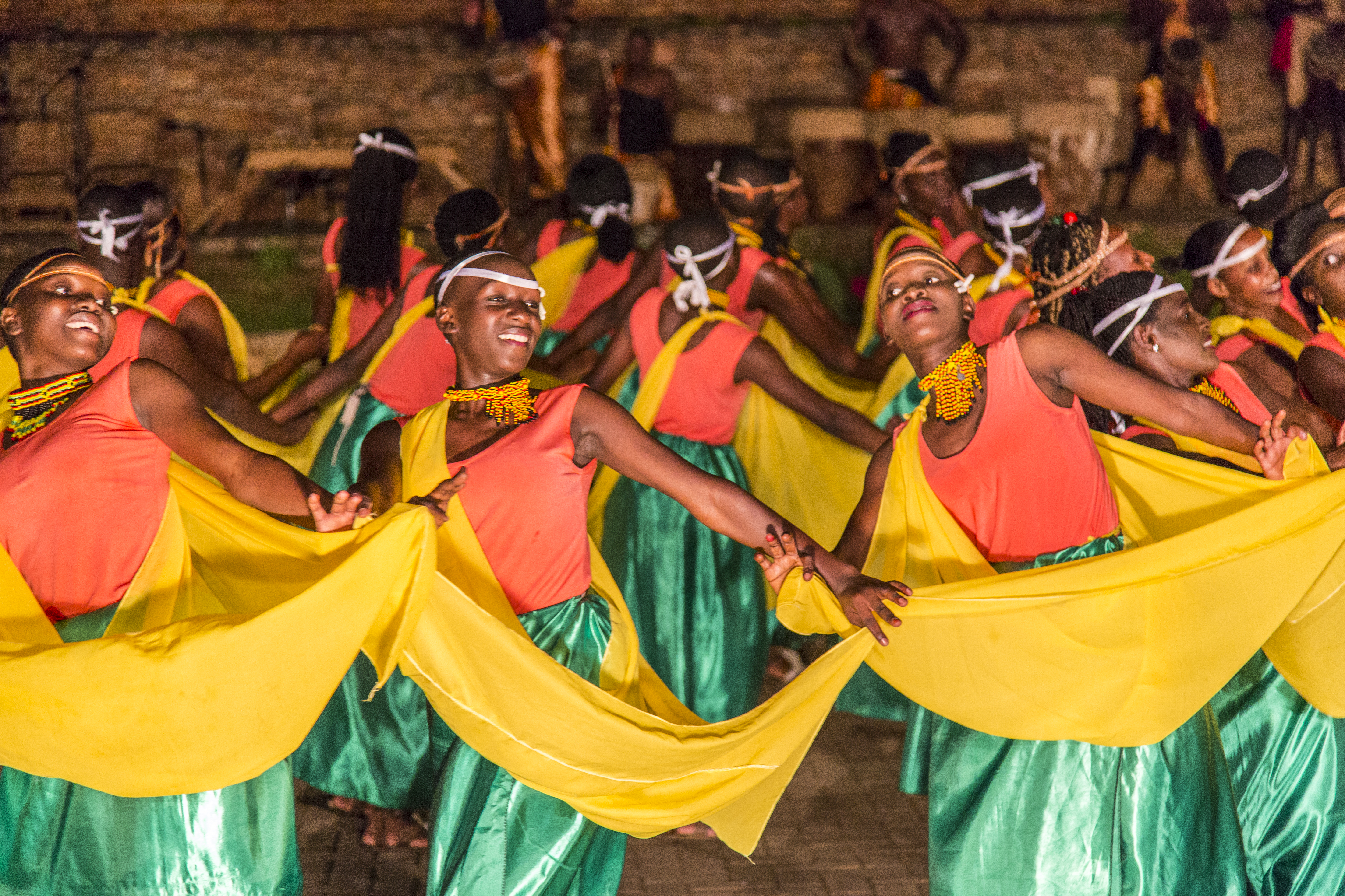 Ndere Center in Kampala is a center where all traditional Ugandan dances are represented. This dance is from the south of Uganda, on the border with Rwanda. This is an image with the theme "Play" from: Uganda